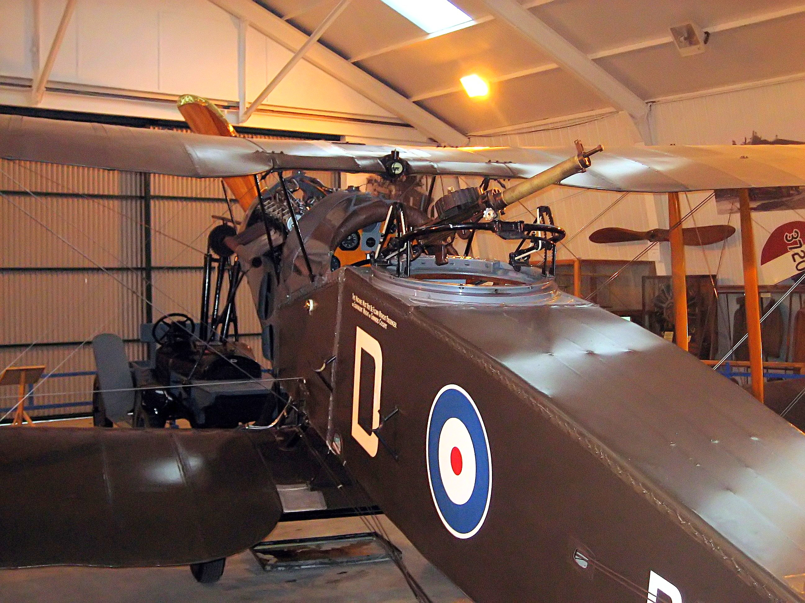 Scarff ring on a WWI British biplane (Bristol F.2B) at the Shuttleworth Collection